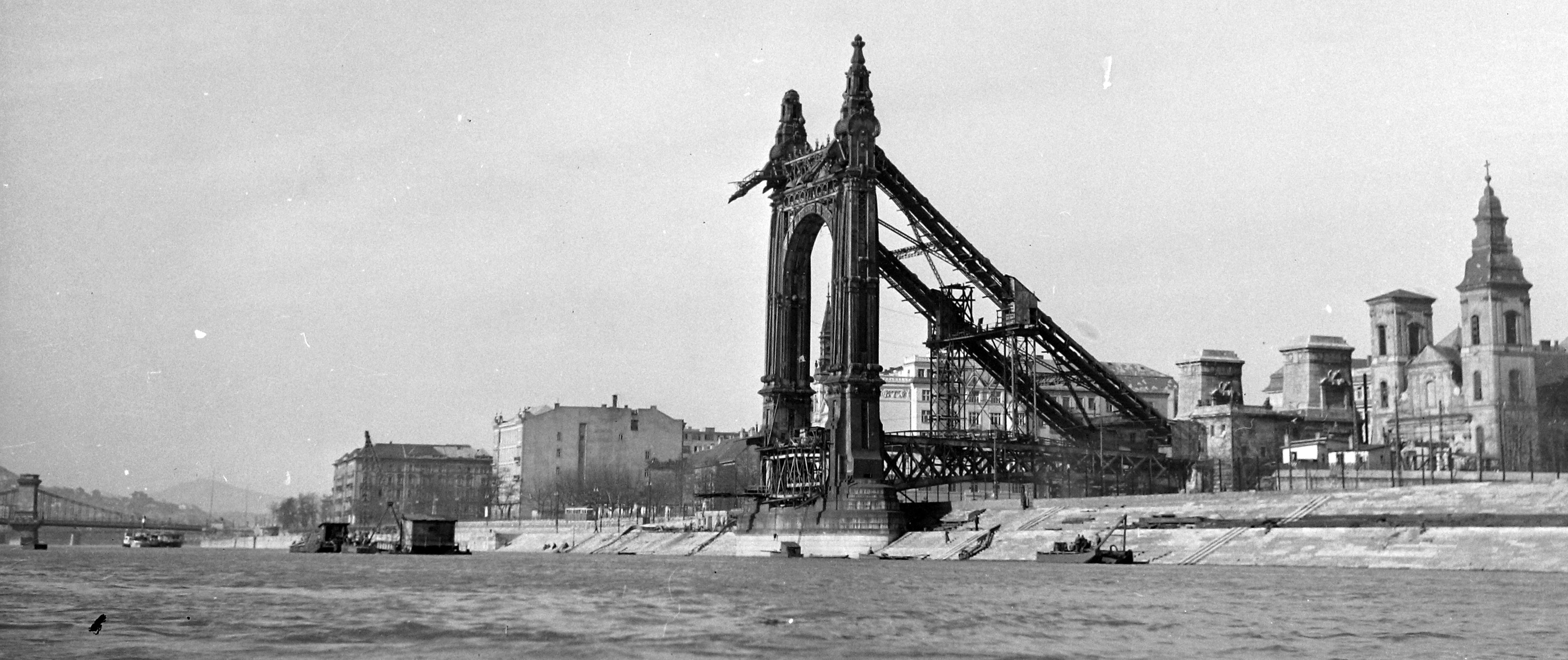 Remnants of Elisabeth Bridge, Budapest, with provisional supports, 1949. In the background the Chain Bridge, restored in 1949.